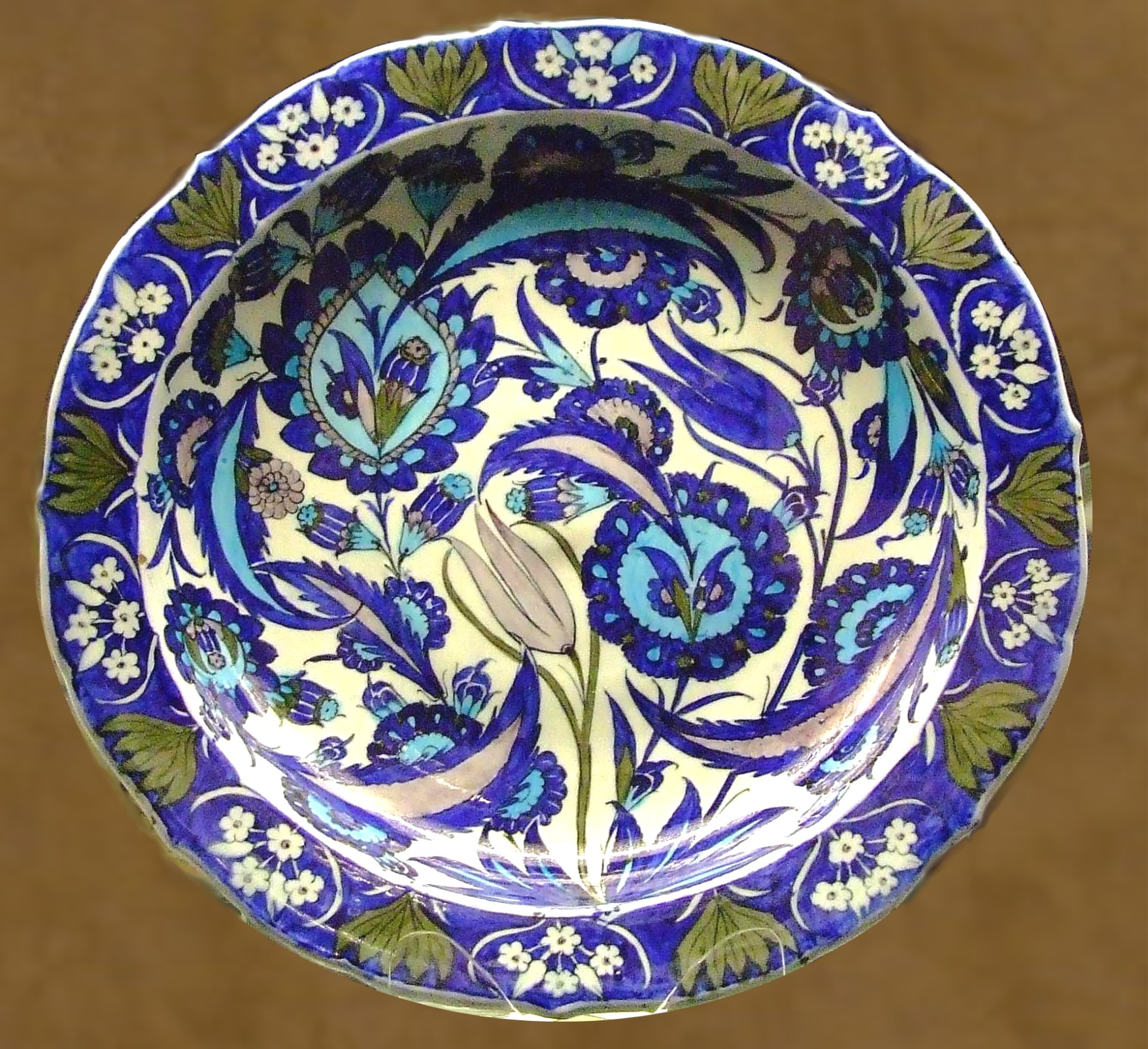 Iznik dish in saz and rosette style in the British Museum's collection. Dated 1540-1550. British Museum Accession Number: 1878,1230.530